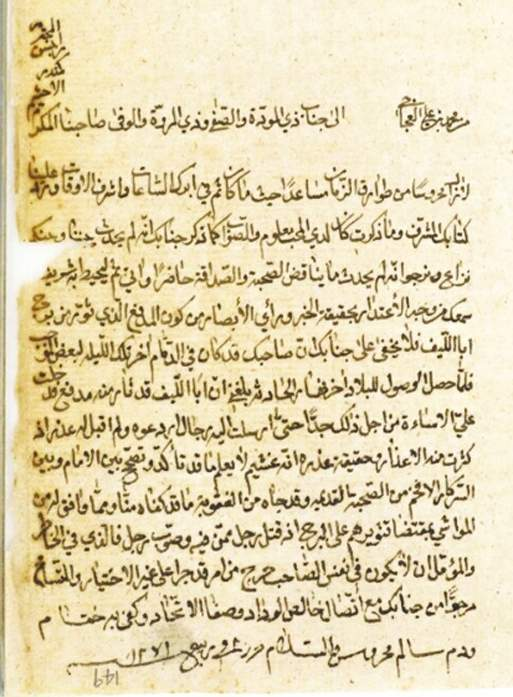 Mohammad Alojaji letter to Commander Robinson